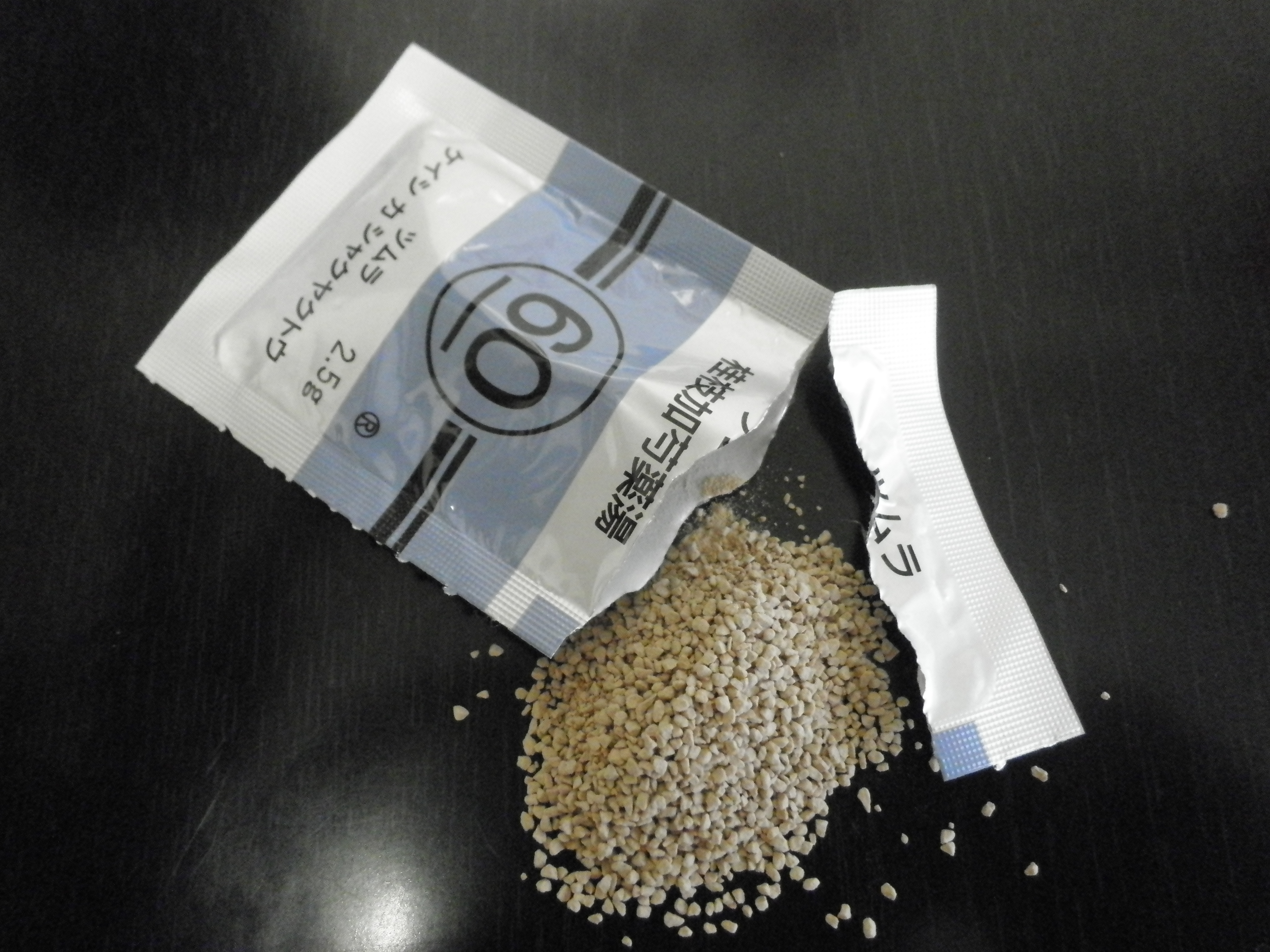 Chinese medicine whose name is keishikasyakuyakutou